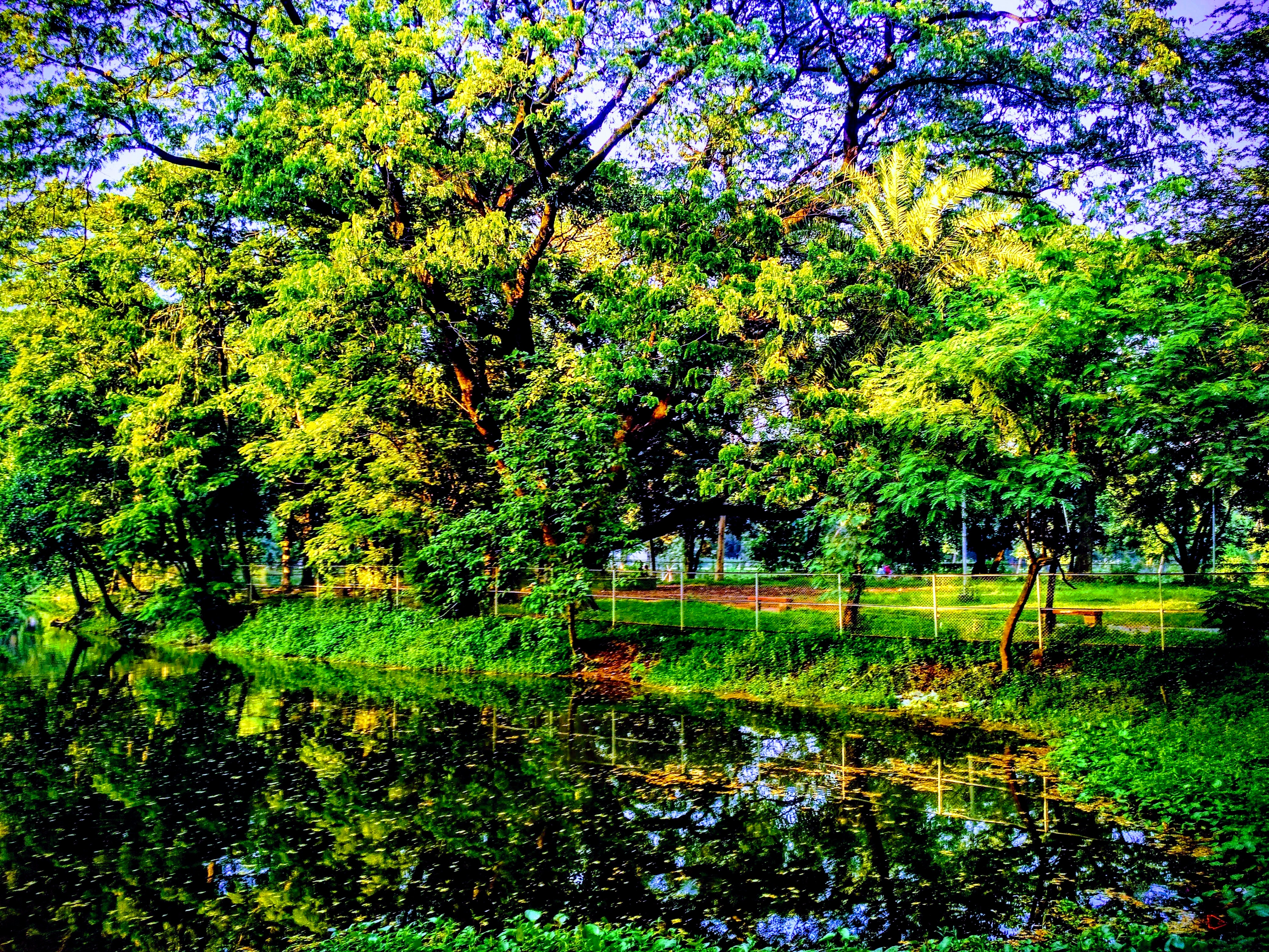 Beautiful lake of Ramna Park .